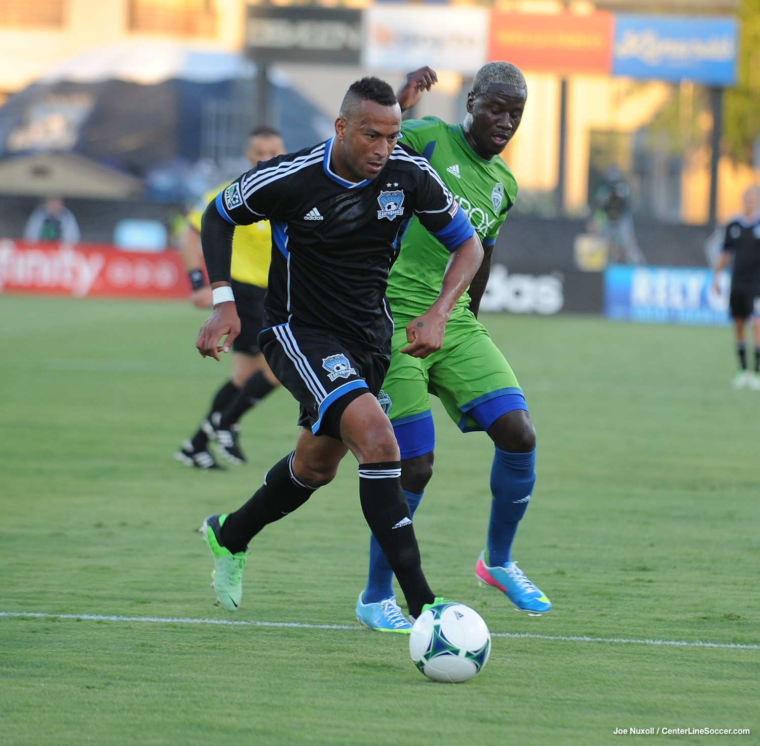 July 13, 2013 - Santa Clara, CA. The San Jose Earthquakes defeated the visiting Seattle Sounders FC 1-0. Photo by Joe Nuxoll / .